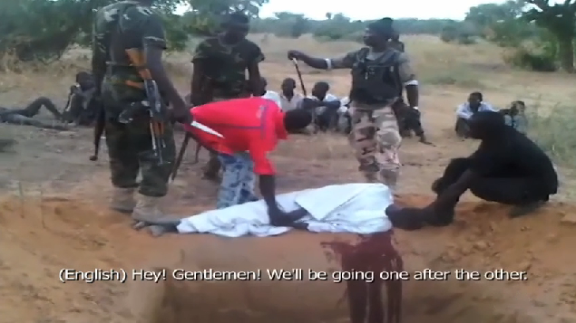 This video allegedly shows members of the Nigerian military executing members of the radical Islamist group Boko Haram.